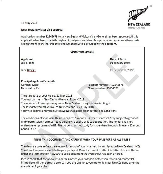 A specimen of a New Zealand eVisa confirmation letter, for a Visitor Visa. This specimen contains example details; actual details will differ between individual visa applicants.